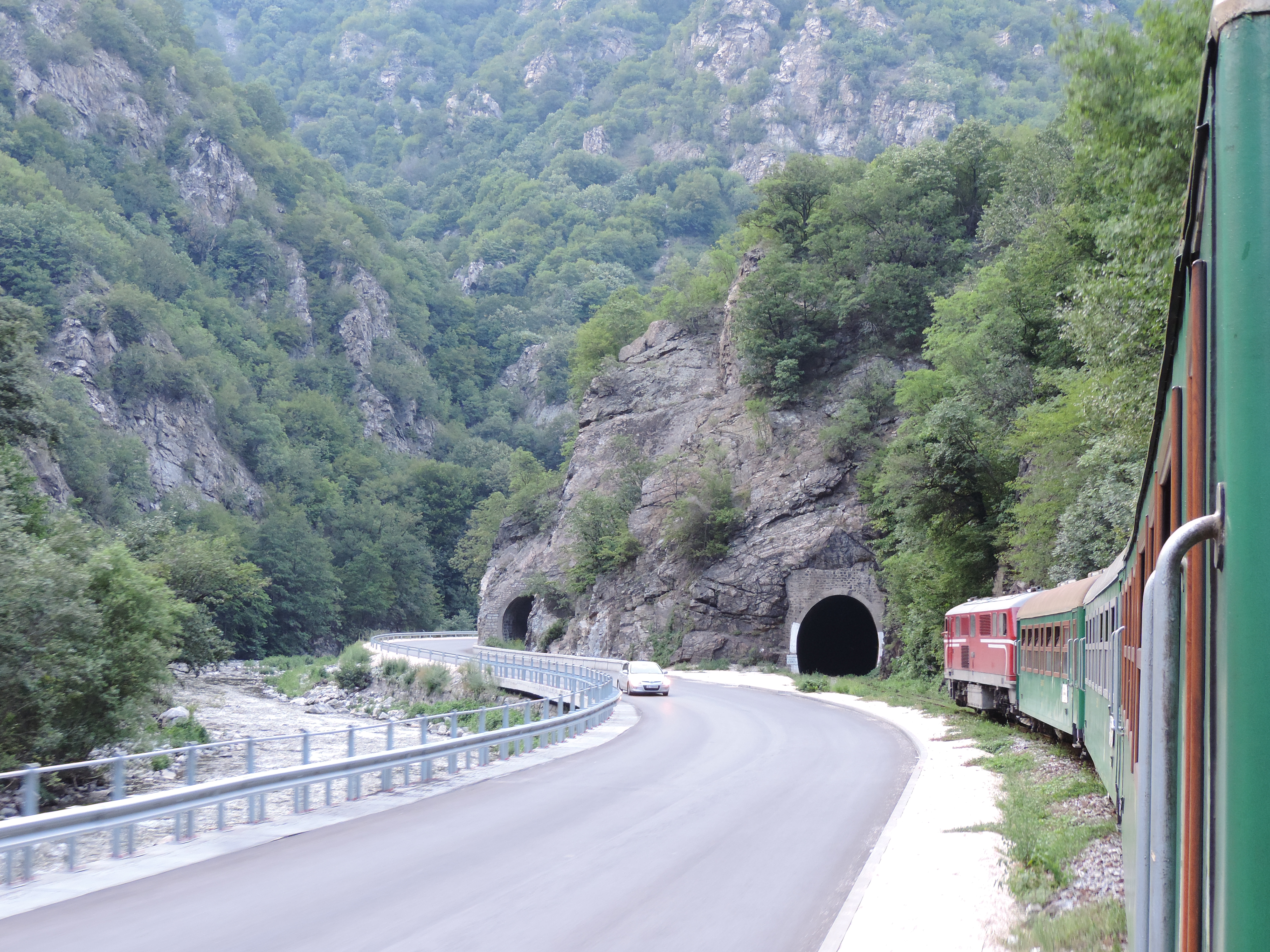 Septemvri-Dobrinishte narrow gauge line and Road 84, Bulgaria